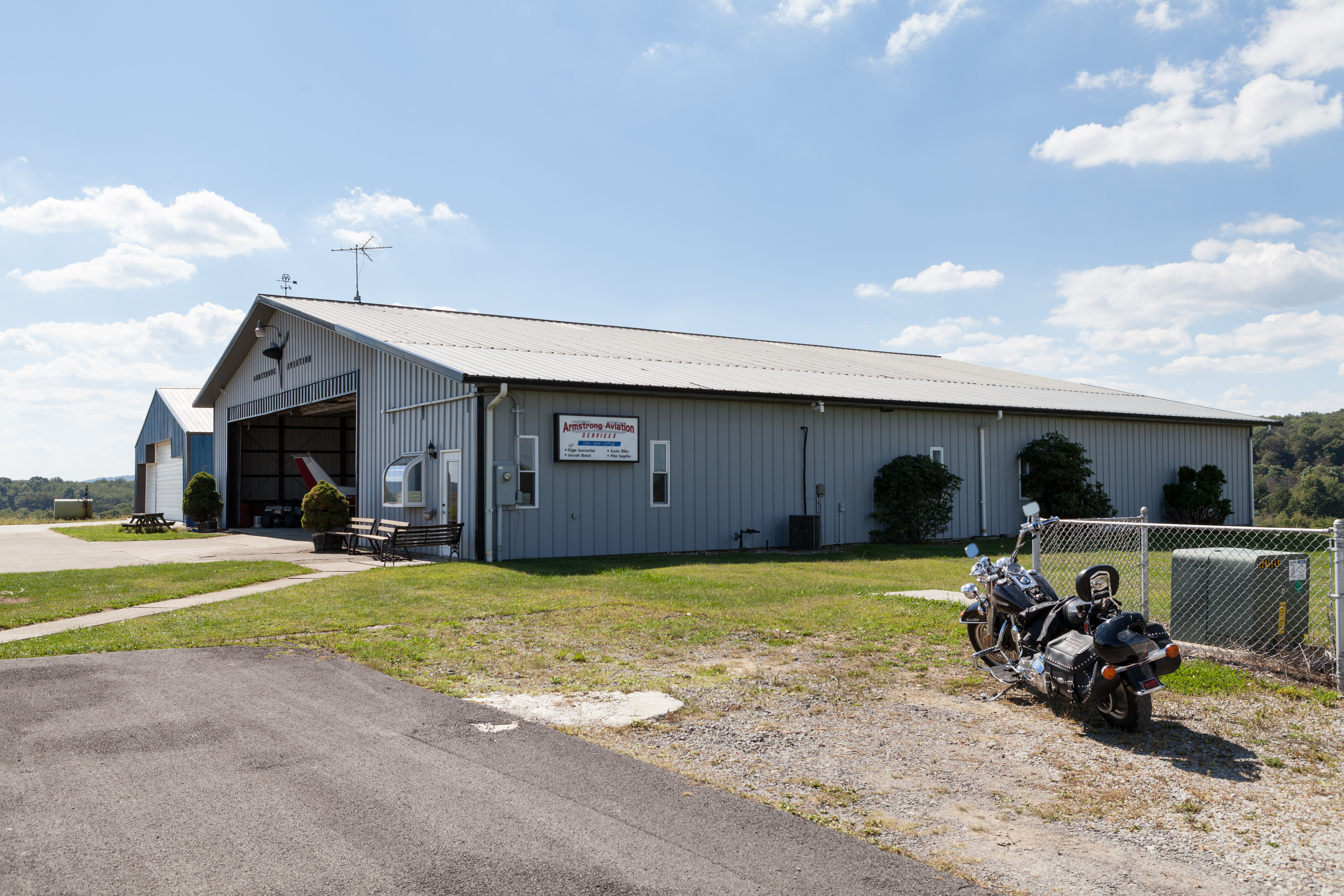 A hangar at McVille Airport near Freeport, Pennsylvania.